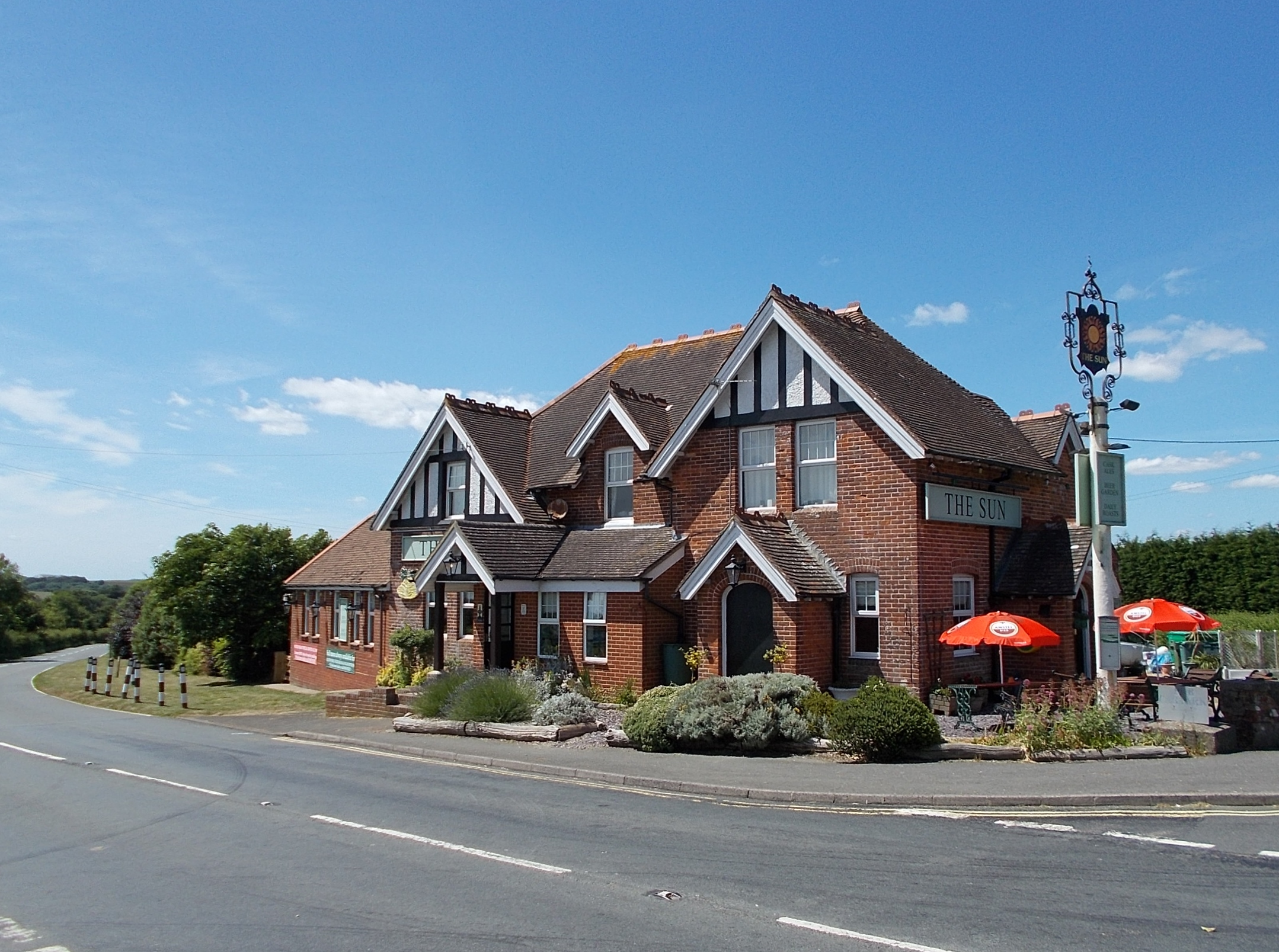 Sun Inn, Calbourne, Isle of Wight, UK